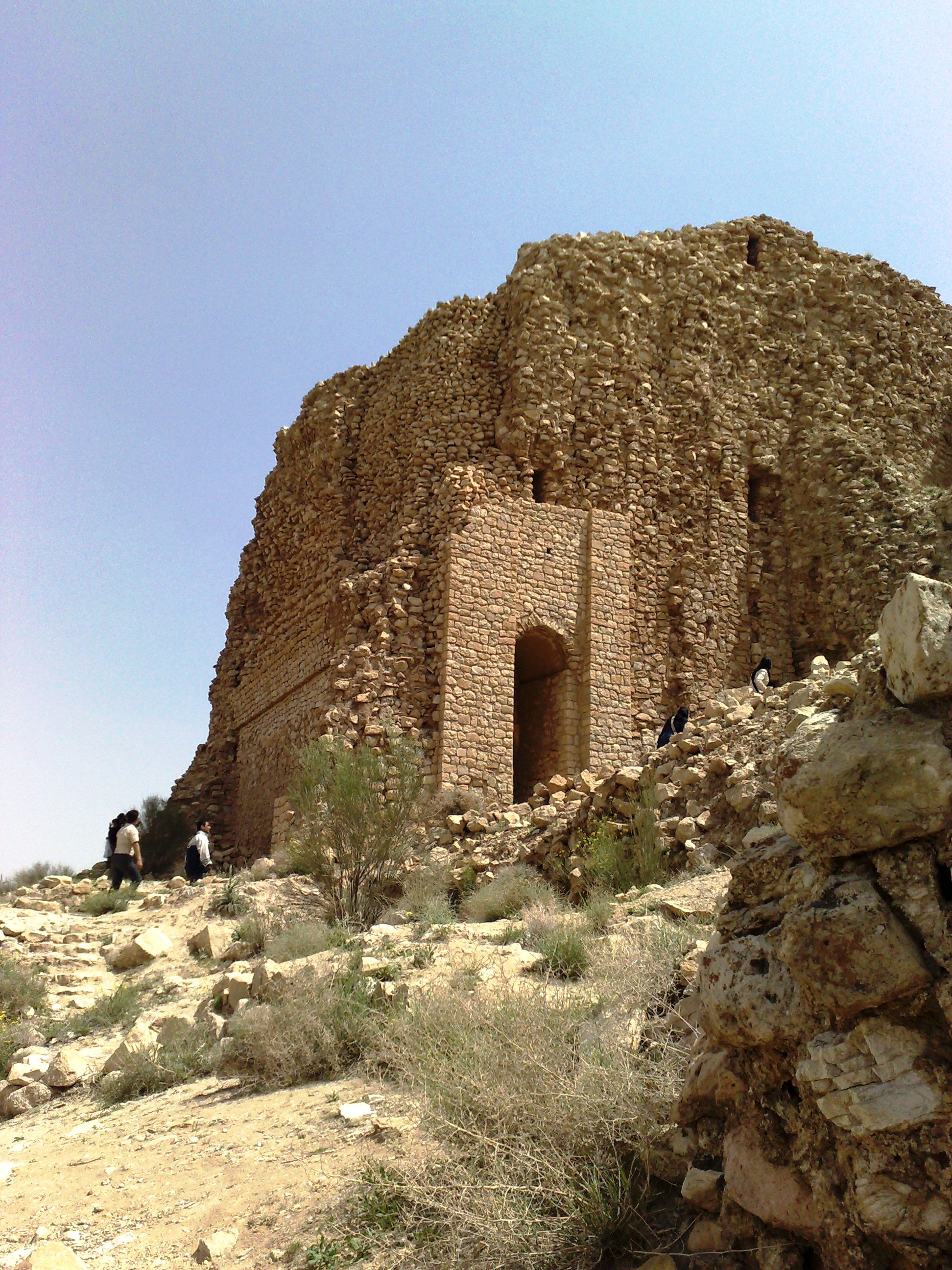 قلعه دختر در شهرستان فیروزاباد استان فارس یکی از آثار تاریخی به جا مانده ار اردشیر بابکان، اولین پارشاه ساسانی می‌باشد.